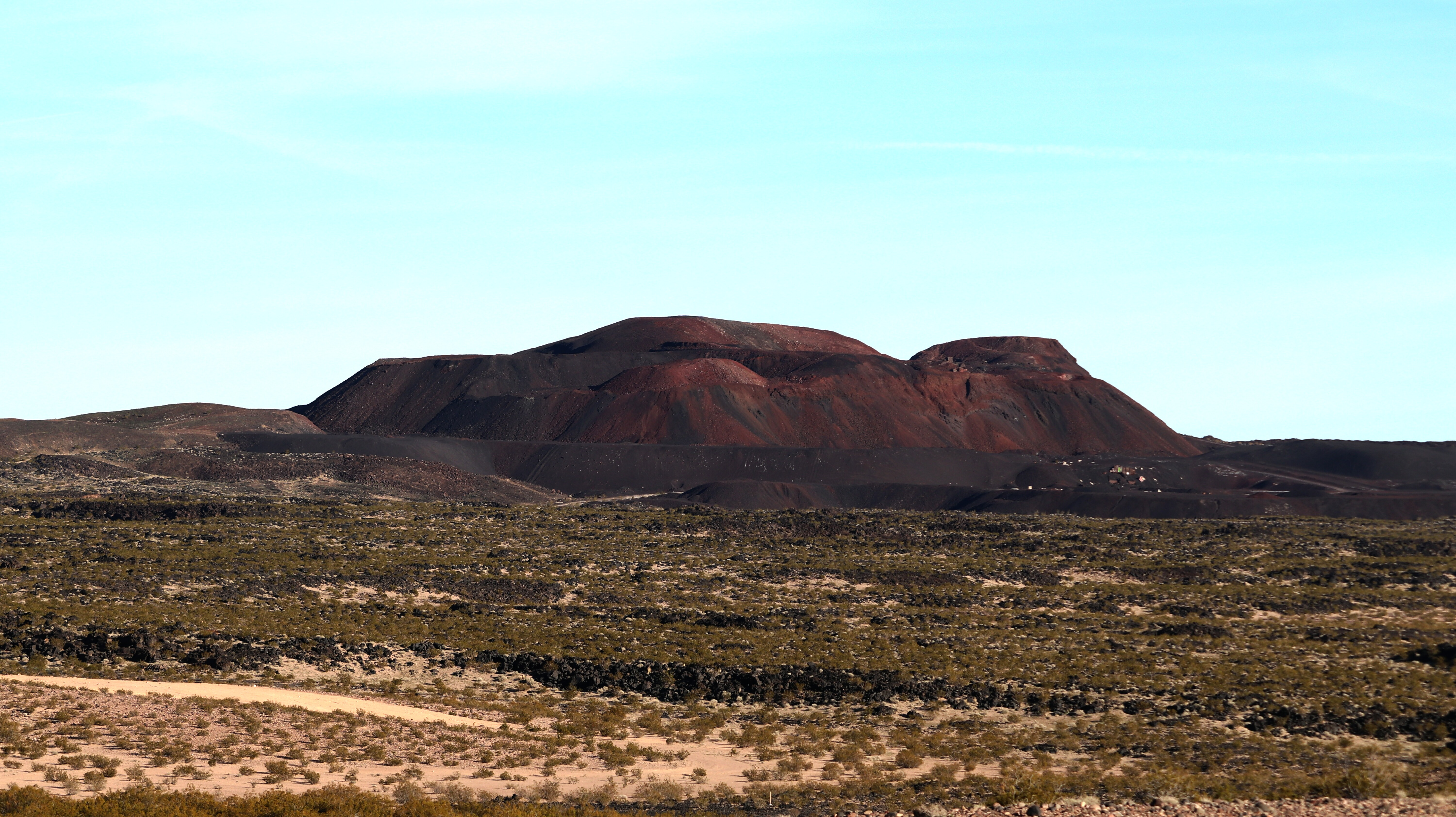 Pisgah crater/cinder cone is directly south of alongside route 66 and is 10 miles west of Ludlow California and about 30 miles southeast of Barstow California. The volcanic cone and basalt field is directly against an ancient ice age lake "Lavic Lake" The entire southern area of the cone and beyond is a marine corps gunnery range.